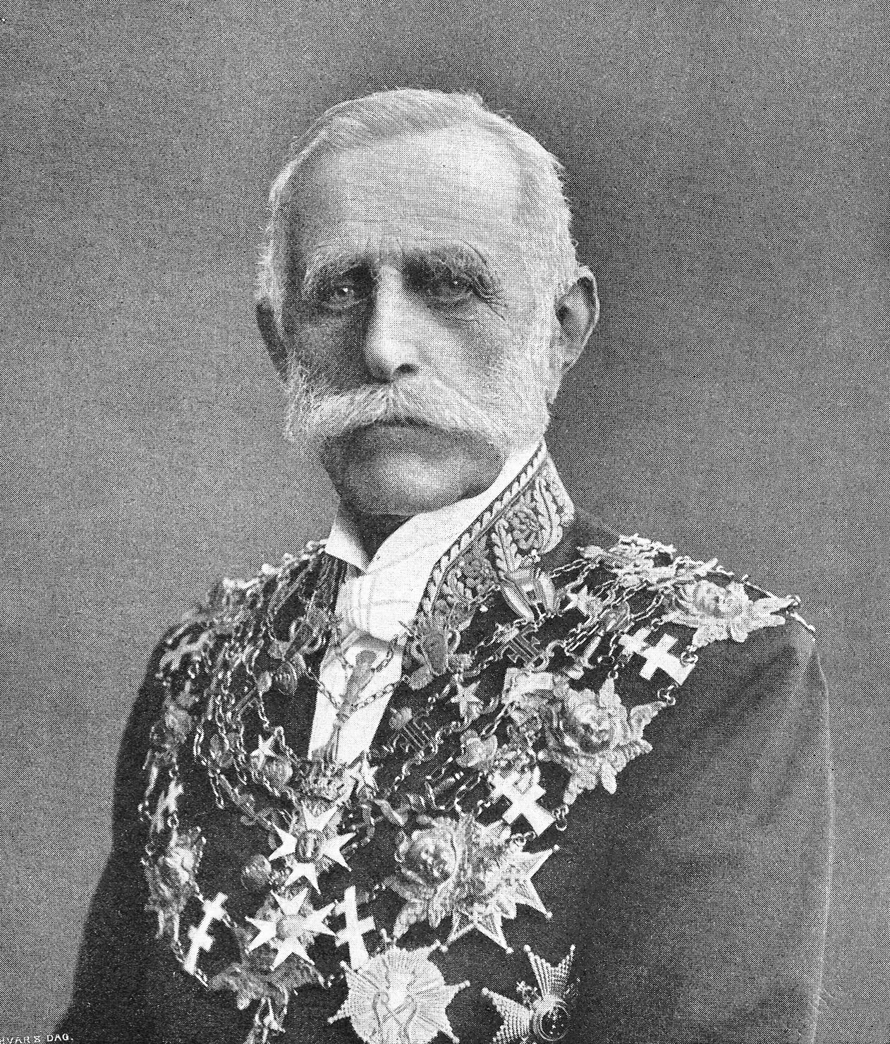 Swedish Reichsmarschall Fredrik von Essen (1831-1921).